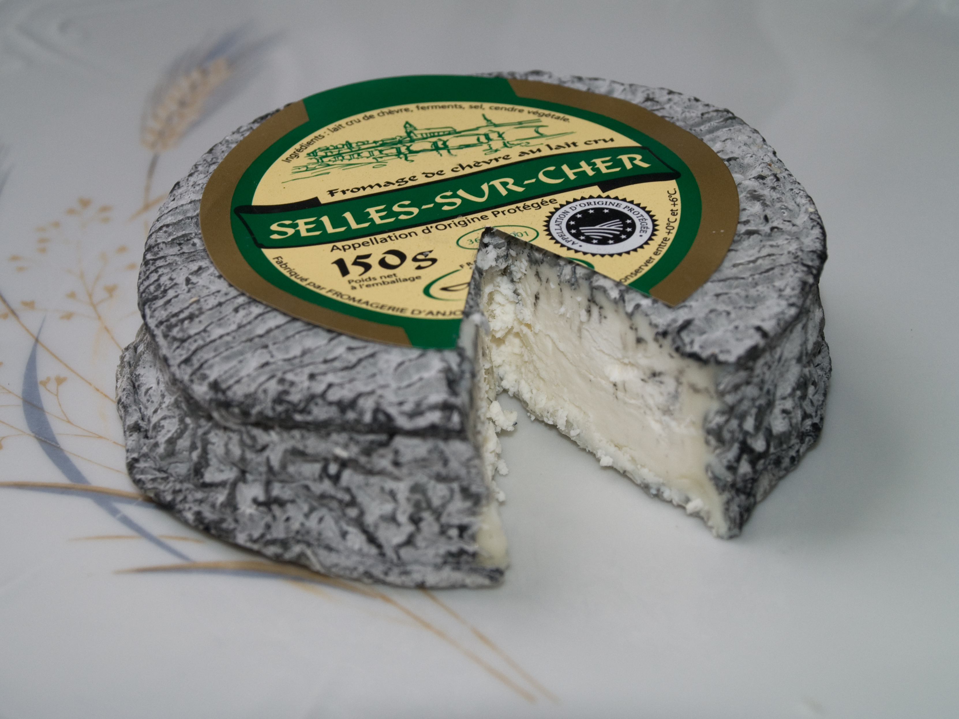 Selles-sur-Cher is a French goats'-milk labelled Protected Designation of Origin (PDO) cheese, made in the Centre region of France. Its name is derived from the commune of Selles-sur-Cher.